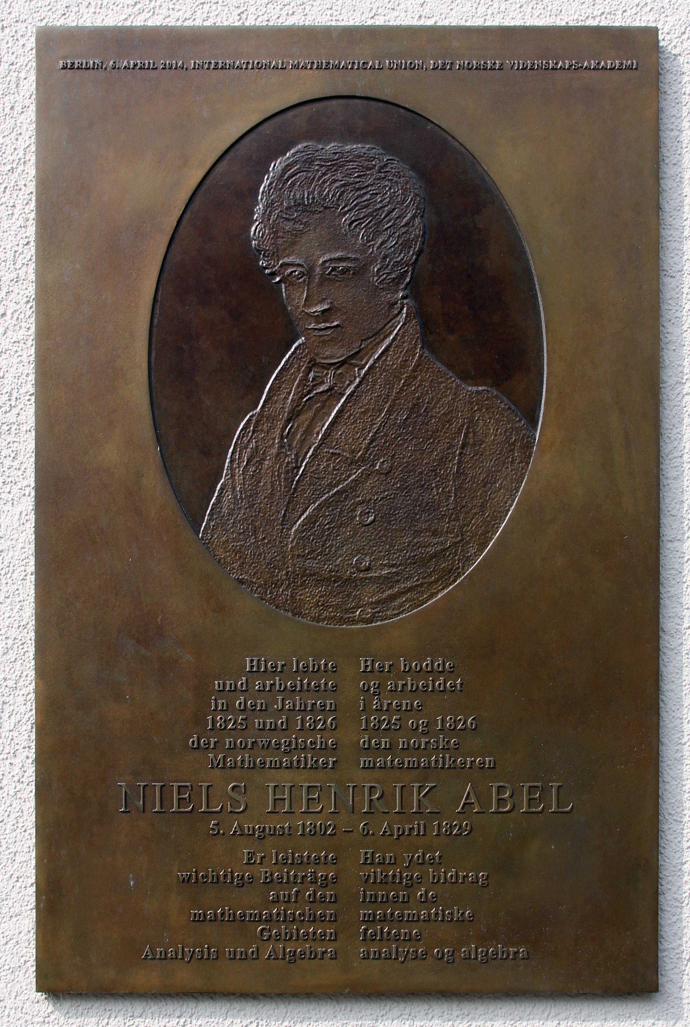 Memorial plaque, Niels Henrik Abel, Am Kupfergraben 4a, Berlin-Mitte, Germany